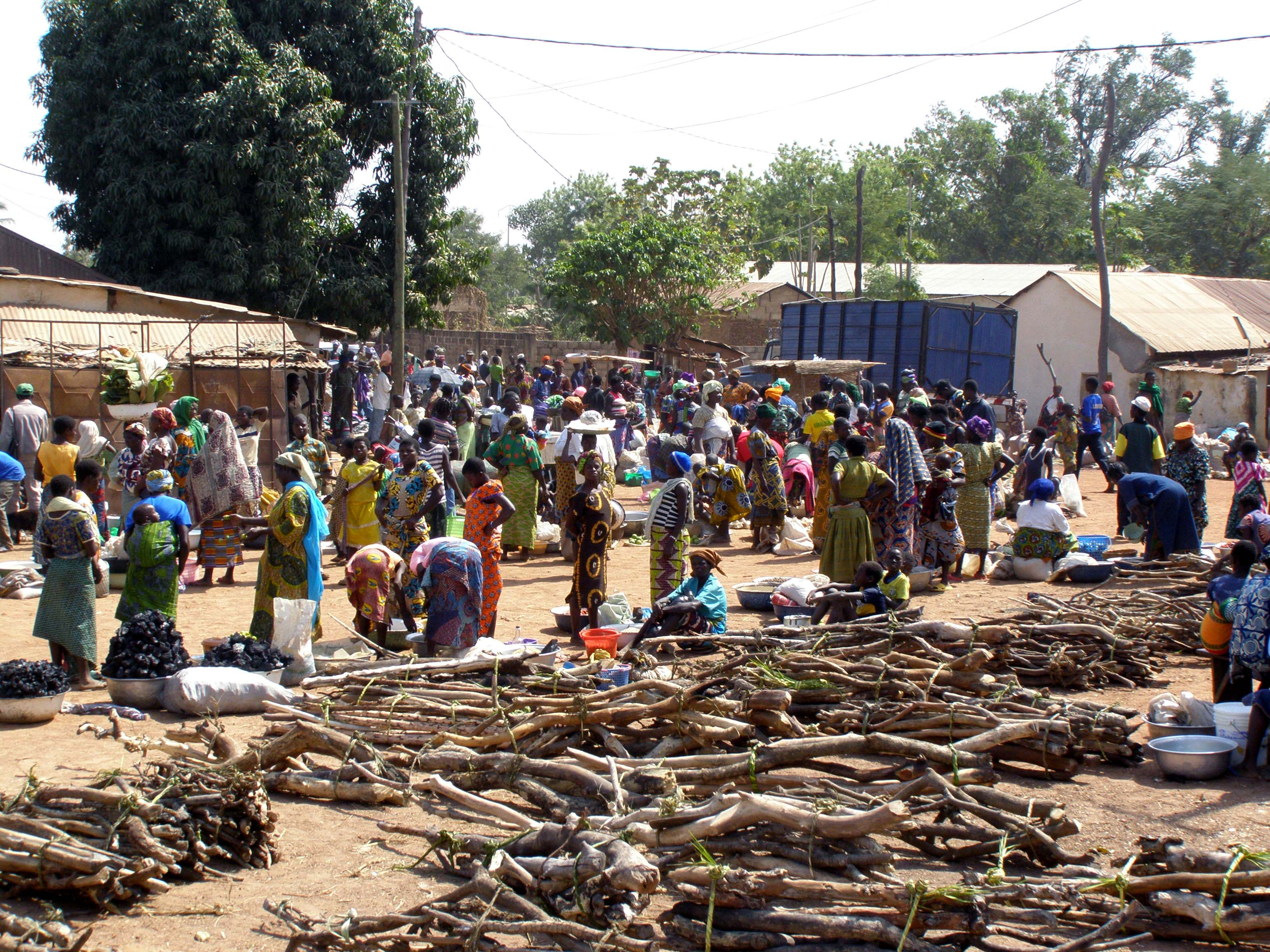 City of Niamtougou , Togo